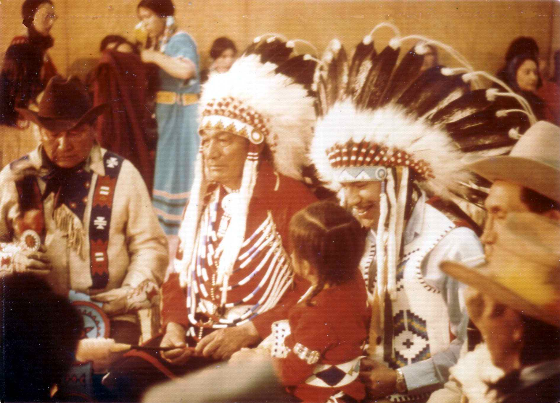 Taken at a community dance session on the Blackfoot reserve in southern Alberta, Canada.